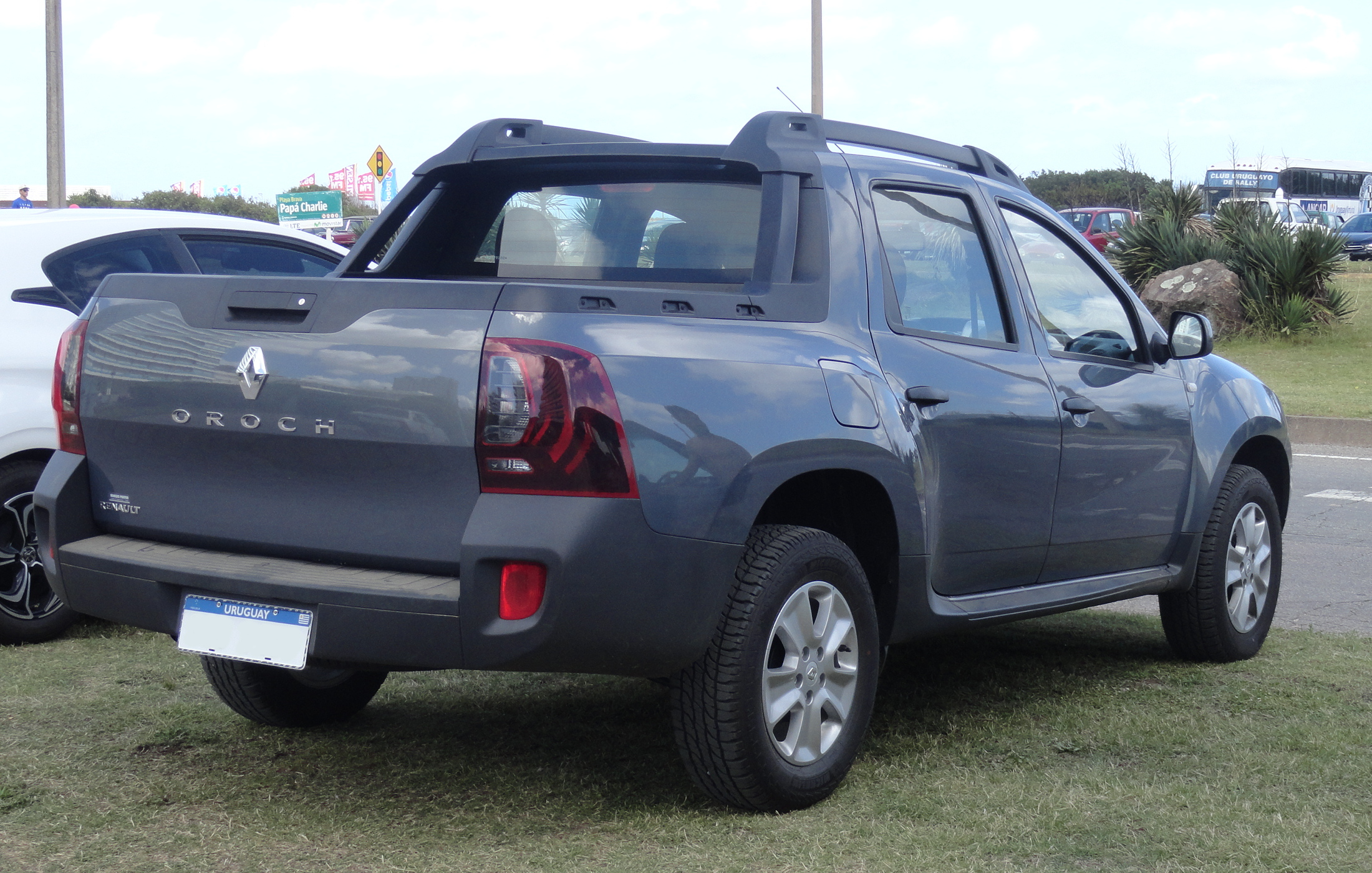 Renault Duster Oroch 2016 photographed in Punta del Este (Uruguay)